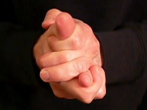 The hands of R. A. Wilson, manualist, demonstrating manualism, a form of hand music. Photographer: R. A. Wilson Date: January 30, 2006 Camera: Panasonic DMC-FZ20S in QuickTime movie mode Image dimensions: 300x225x24b JPEG (still capture) R. A. Wilson 08:40, 13 August 2006 (UTC)